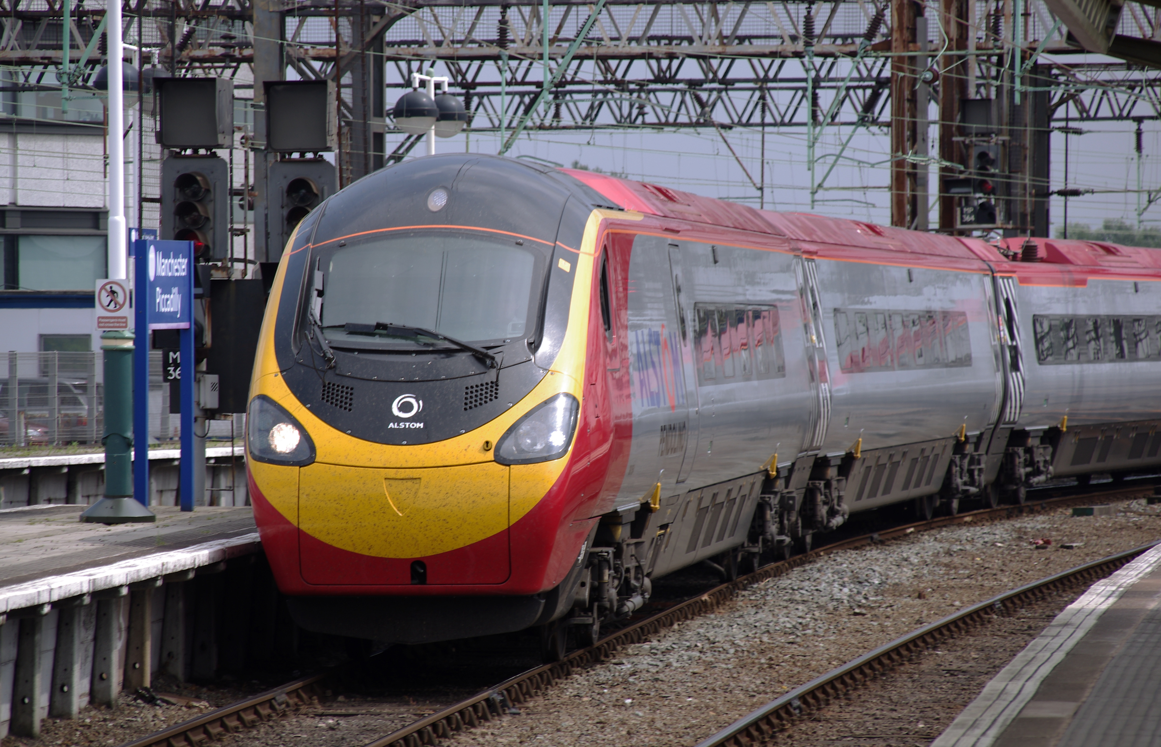 Virgin West Coast Pendolino EMU 390054 arrives at Manchester Piccadilly with a service from London.